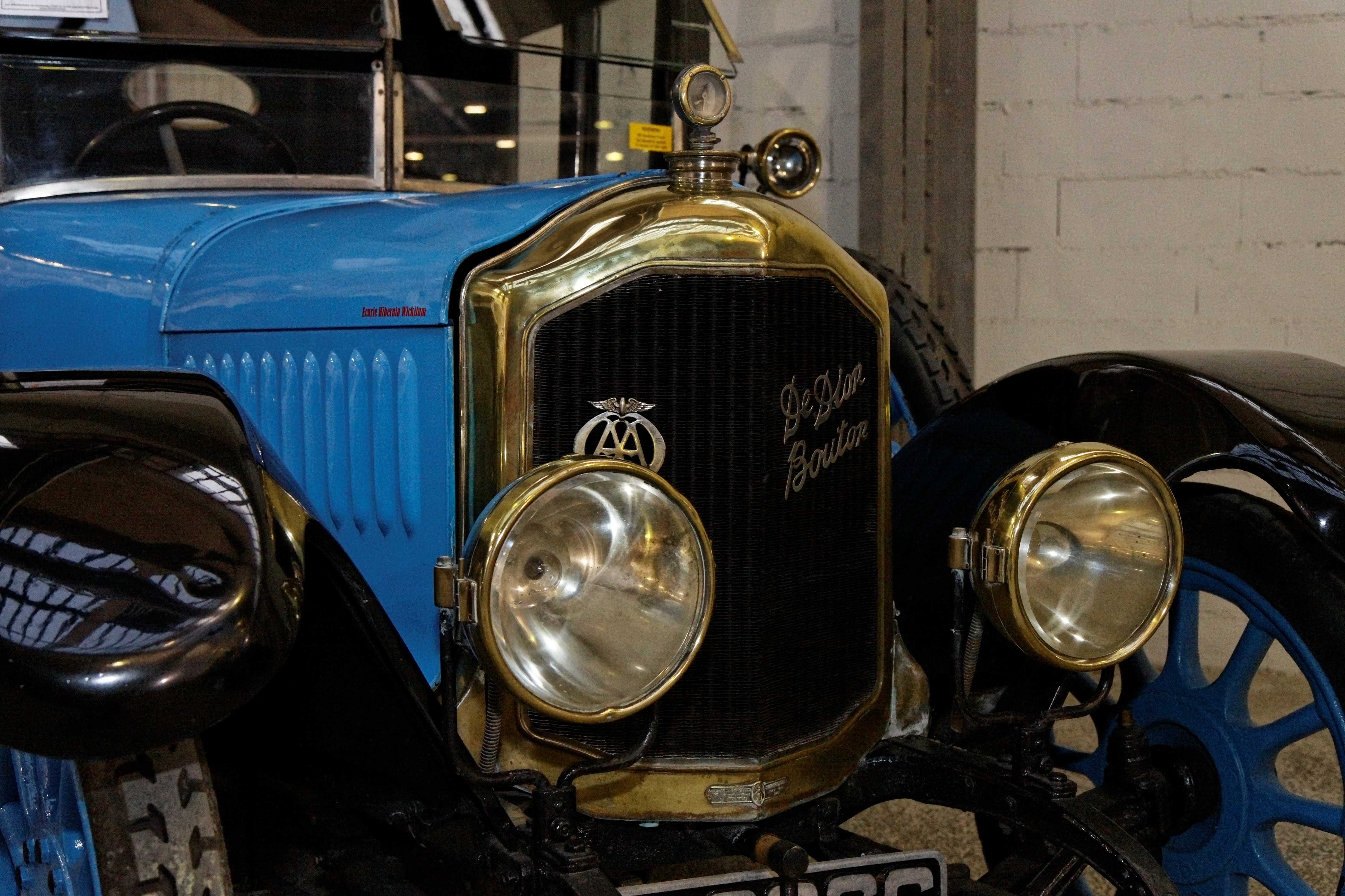 De Dion Bouton 12 24 Drophead Coupé